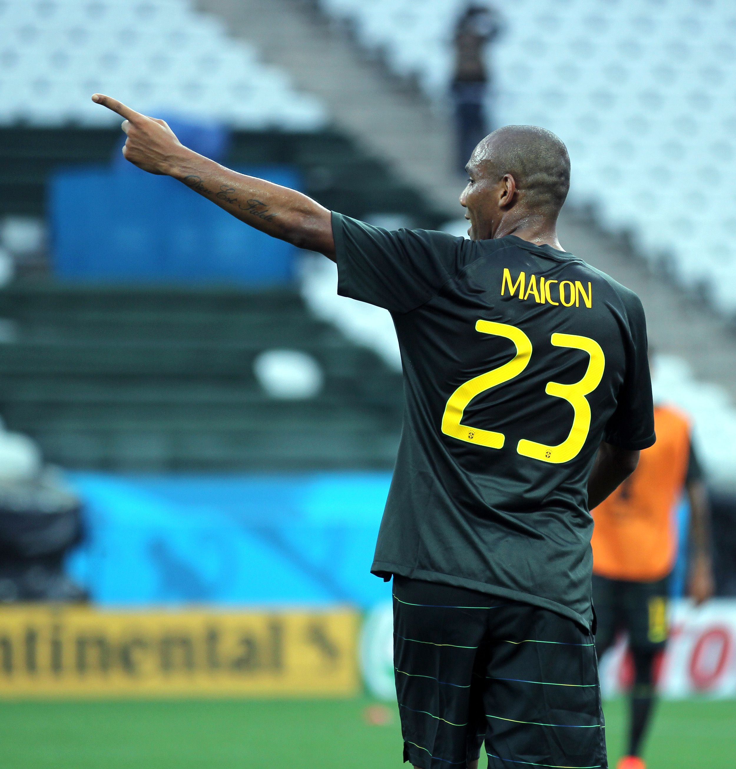 Brazil national team training for 1 day before the start of the first game of the 2014 World Cup qualifier against Croatia 2014-06-11